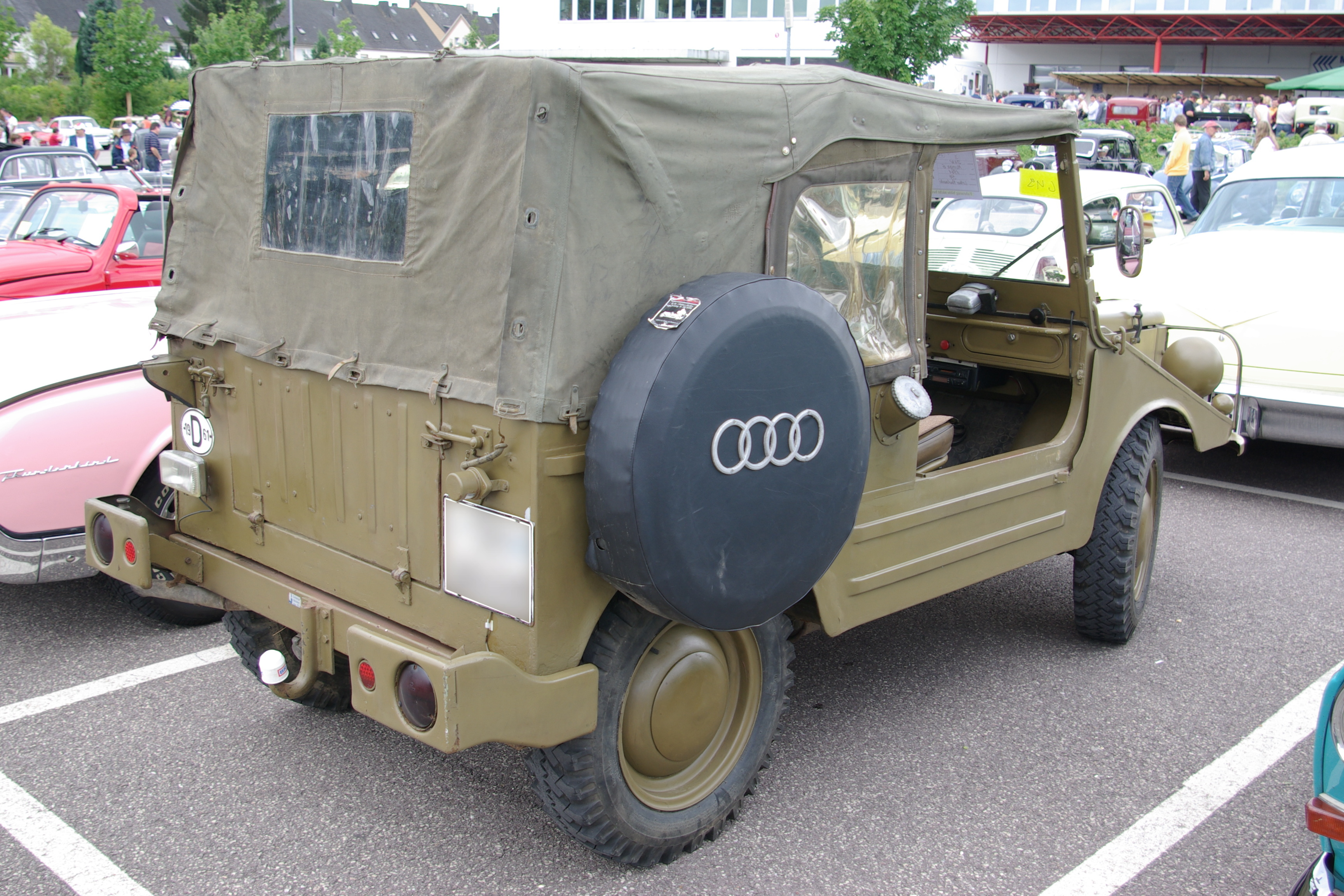 A DKW Munga car, built in 1961. Power: 54 hp.